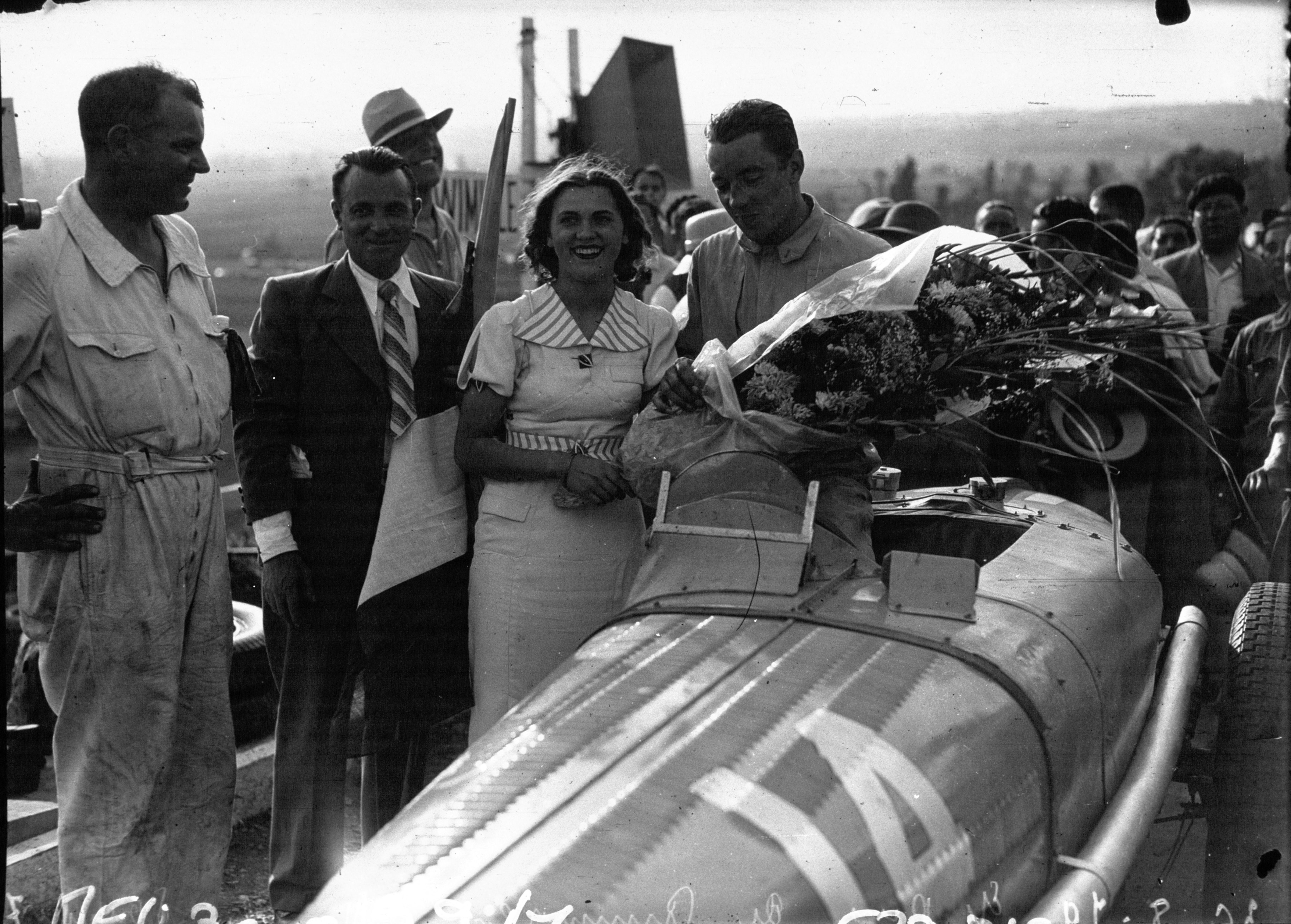 Jean-Pierre Wimille at the 1936 Grand Prix du Comminges